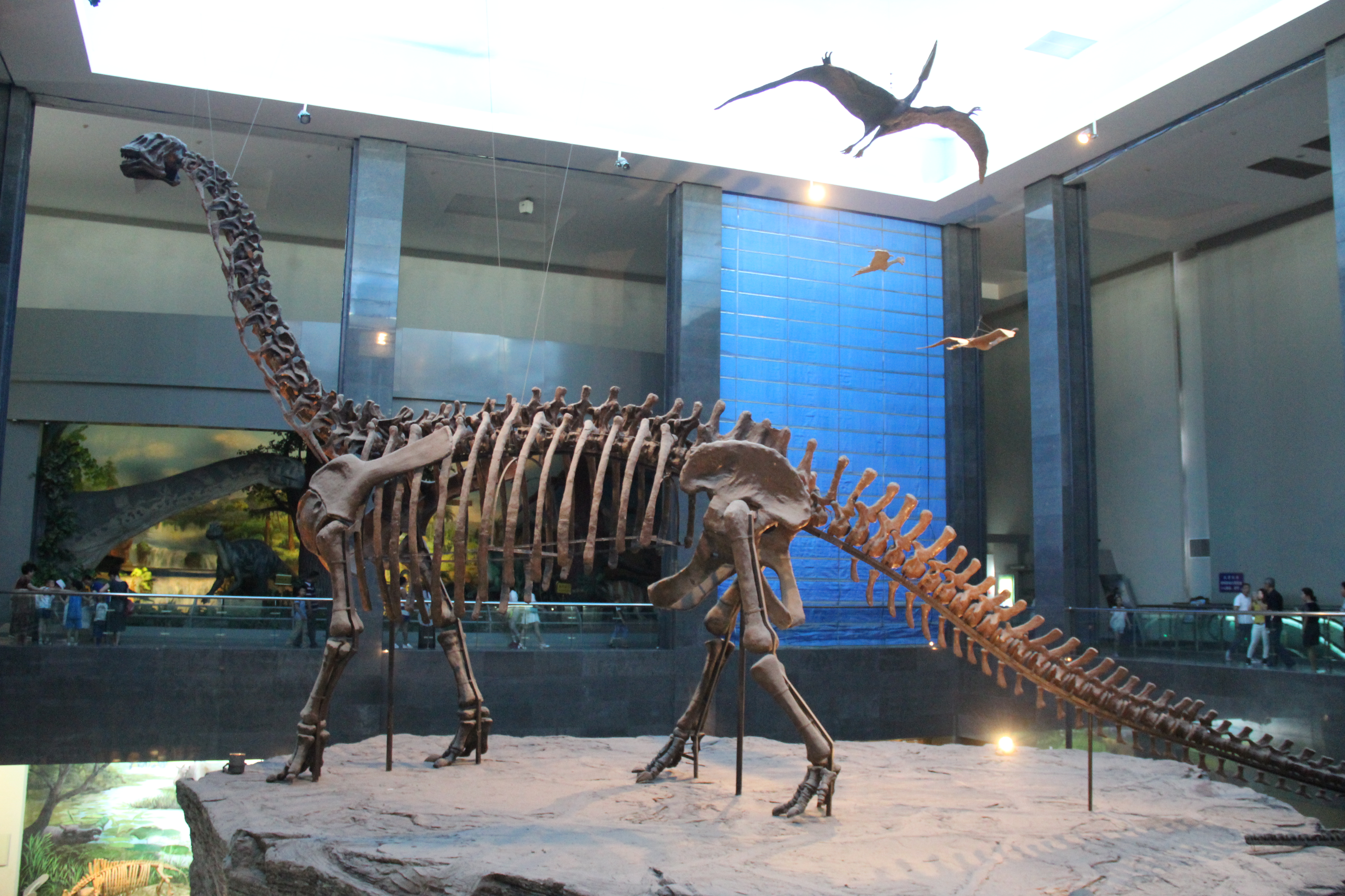 Prehistoric Gallery, Inner Mongolia Museum, Hohhot, China. Complete indexed photo collection at .